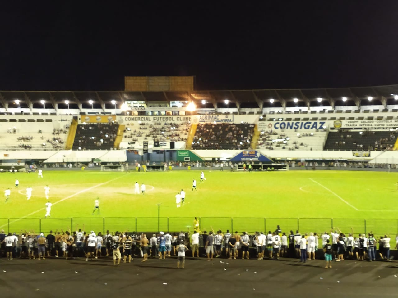 FC Comercial Stadium in night game